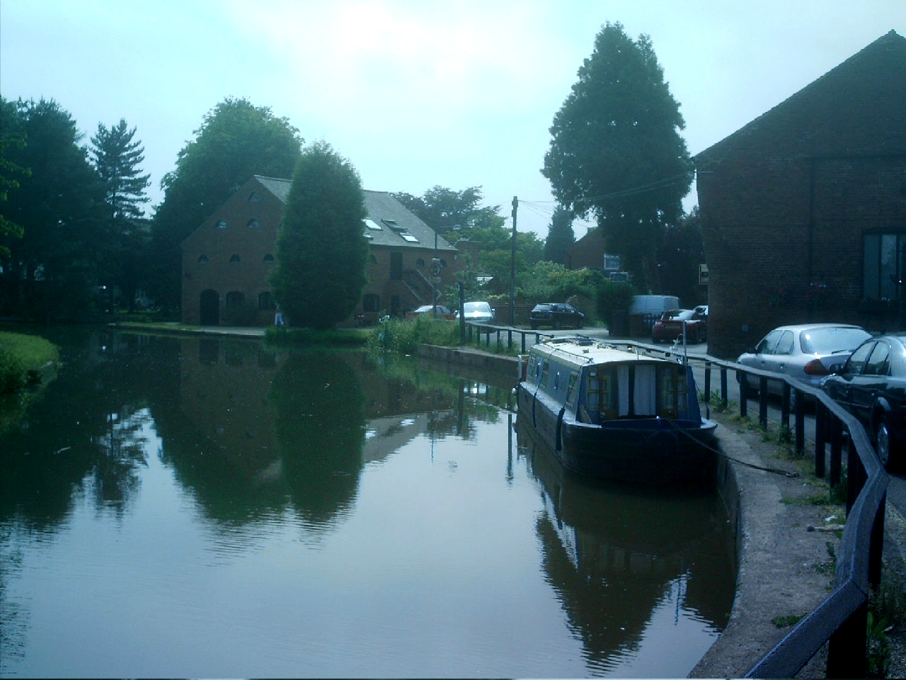 Shardlow Wharf, South Derbyshire